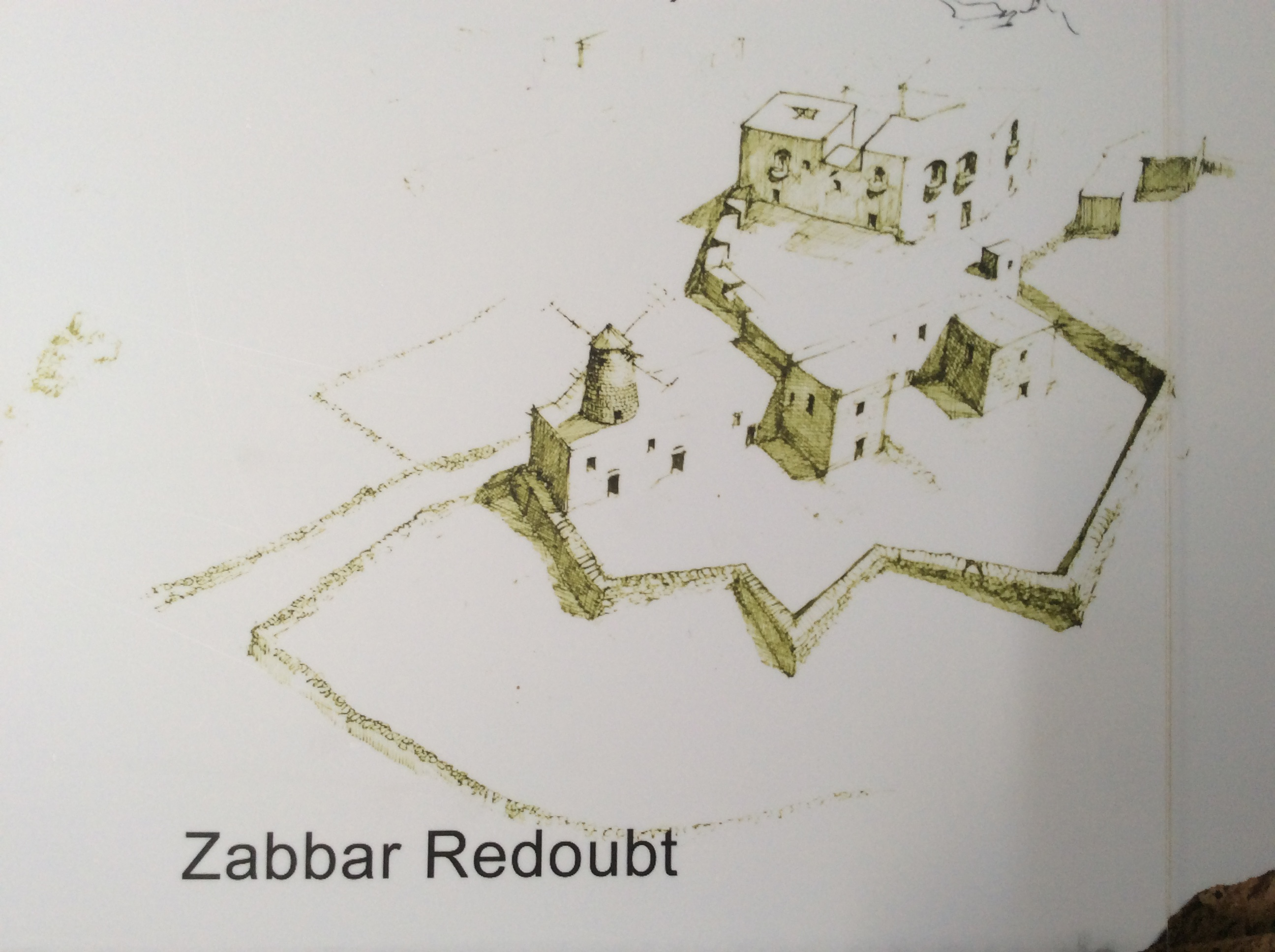 Valletta